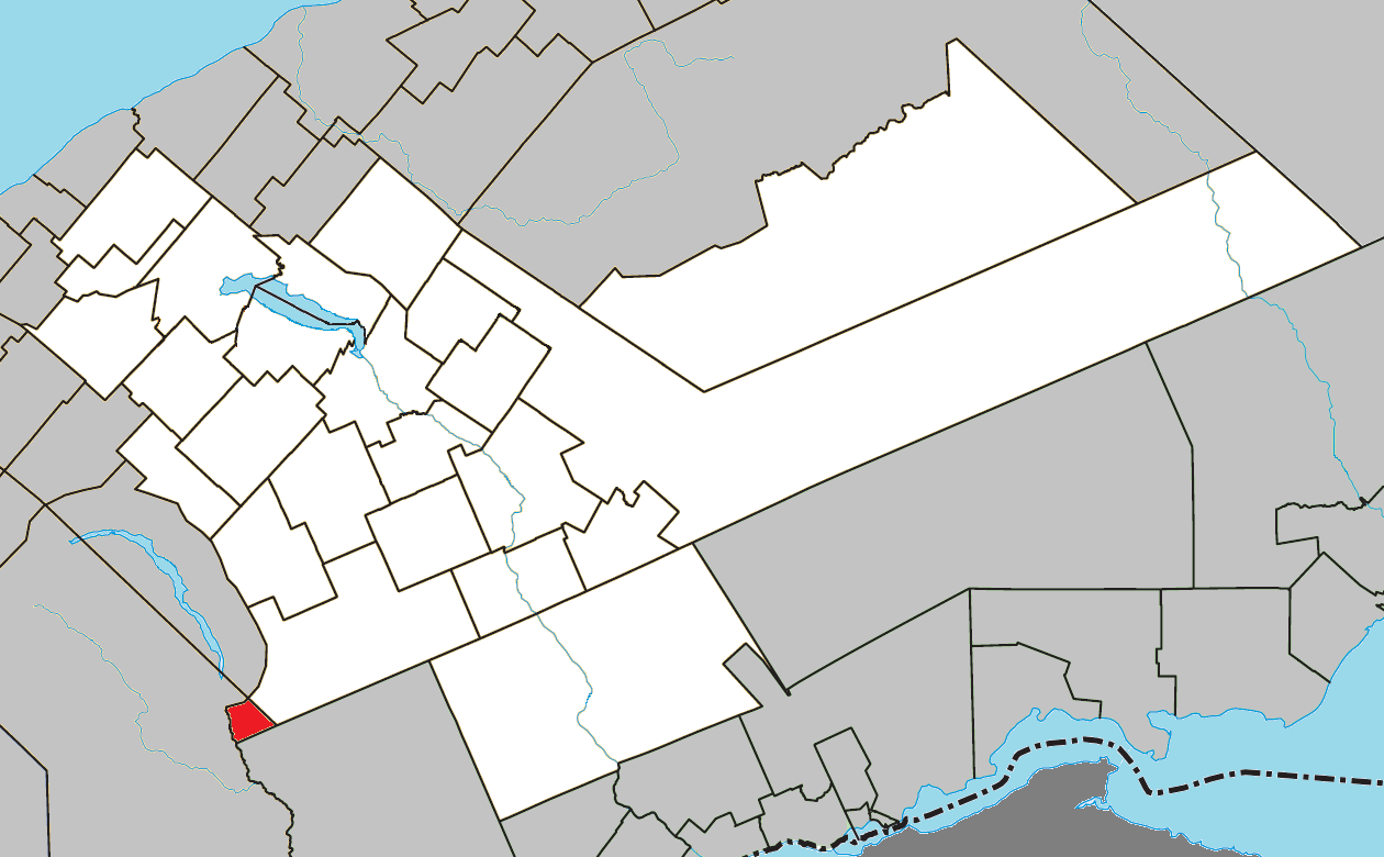 Location of Rivière-Patapédia-Est, Quebec within La Matapédia Regional County Municipality.